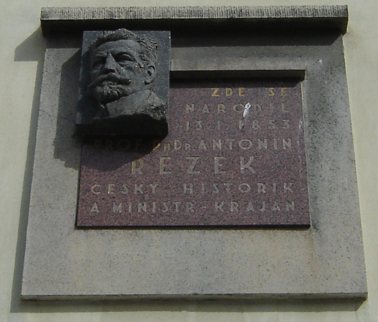 Memorial plaque on the native house of Antonín Rezek in Jindřichův Hradec